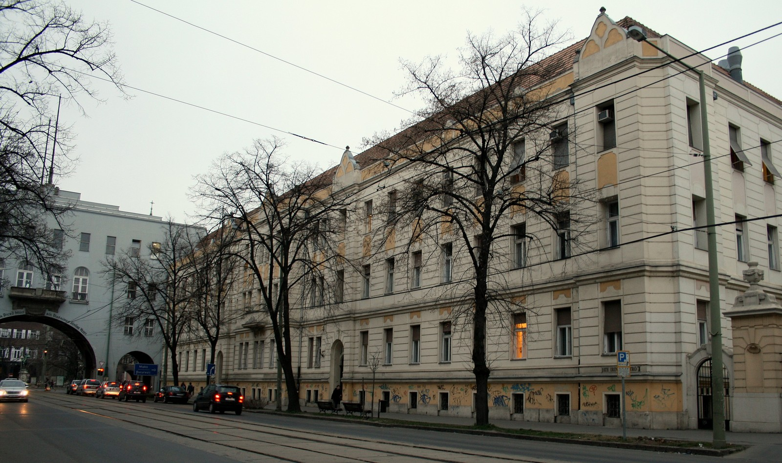 University of Szeged, Irinyi building